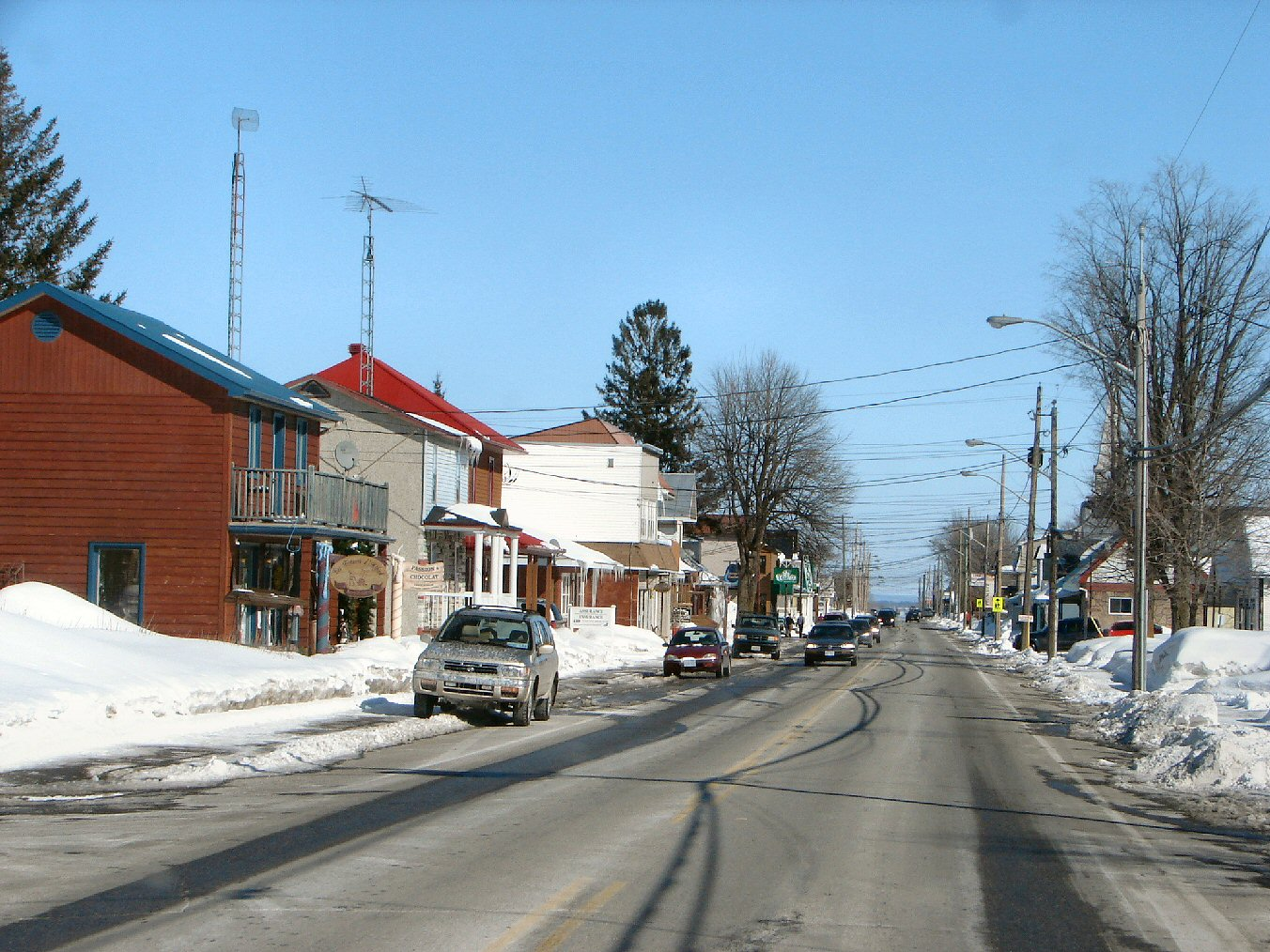 Alfred (municipality Alfred and Plantagenet), Ontario, Canada